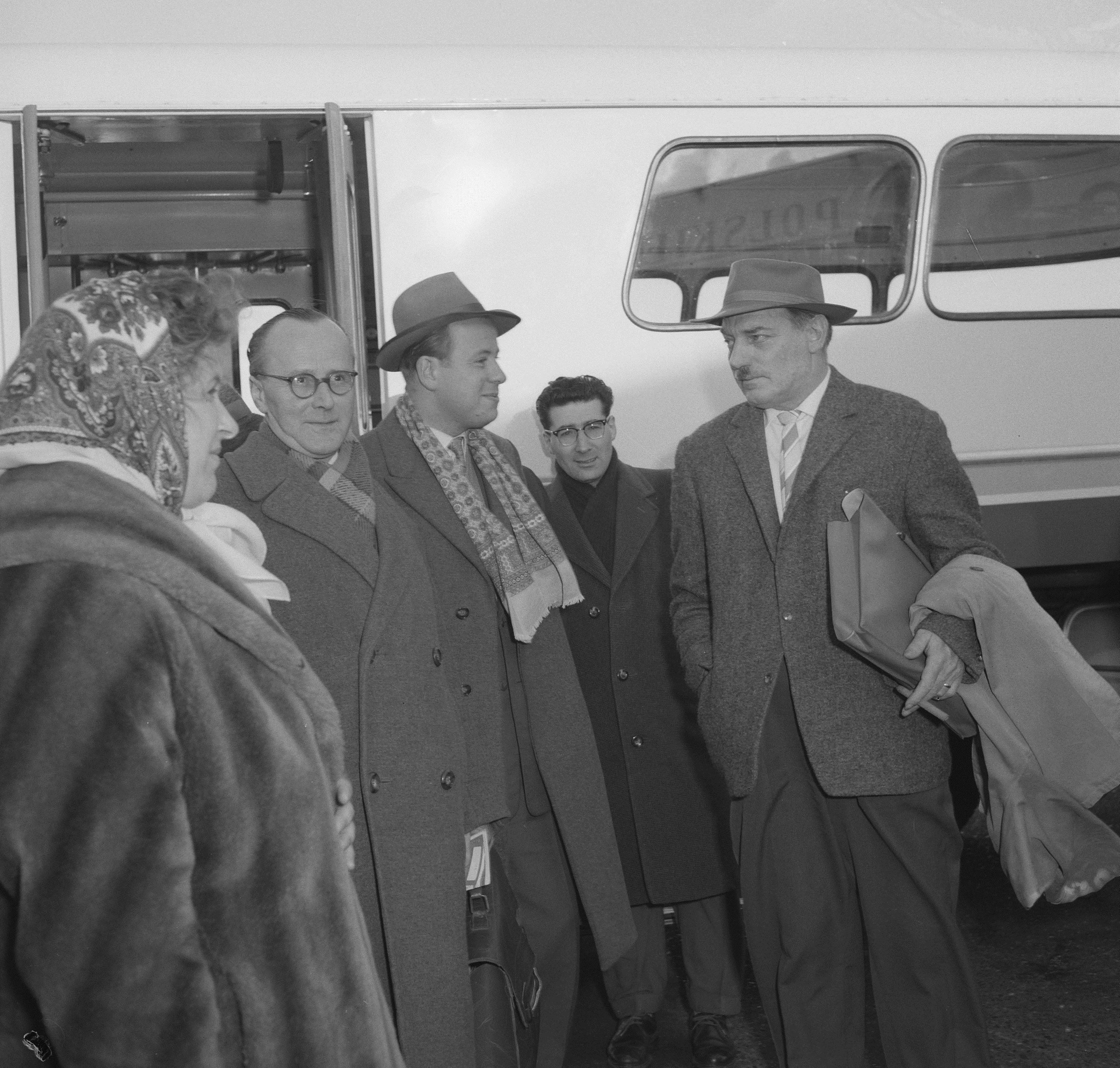 Wolfgang Uhlmann & Henk van Steenis. Uhlmann arrives at Schiphol and immediately has to leave the Netherlands.